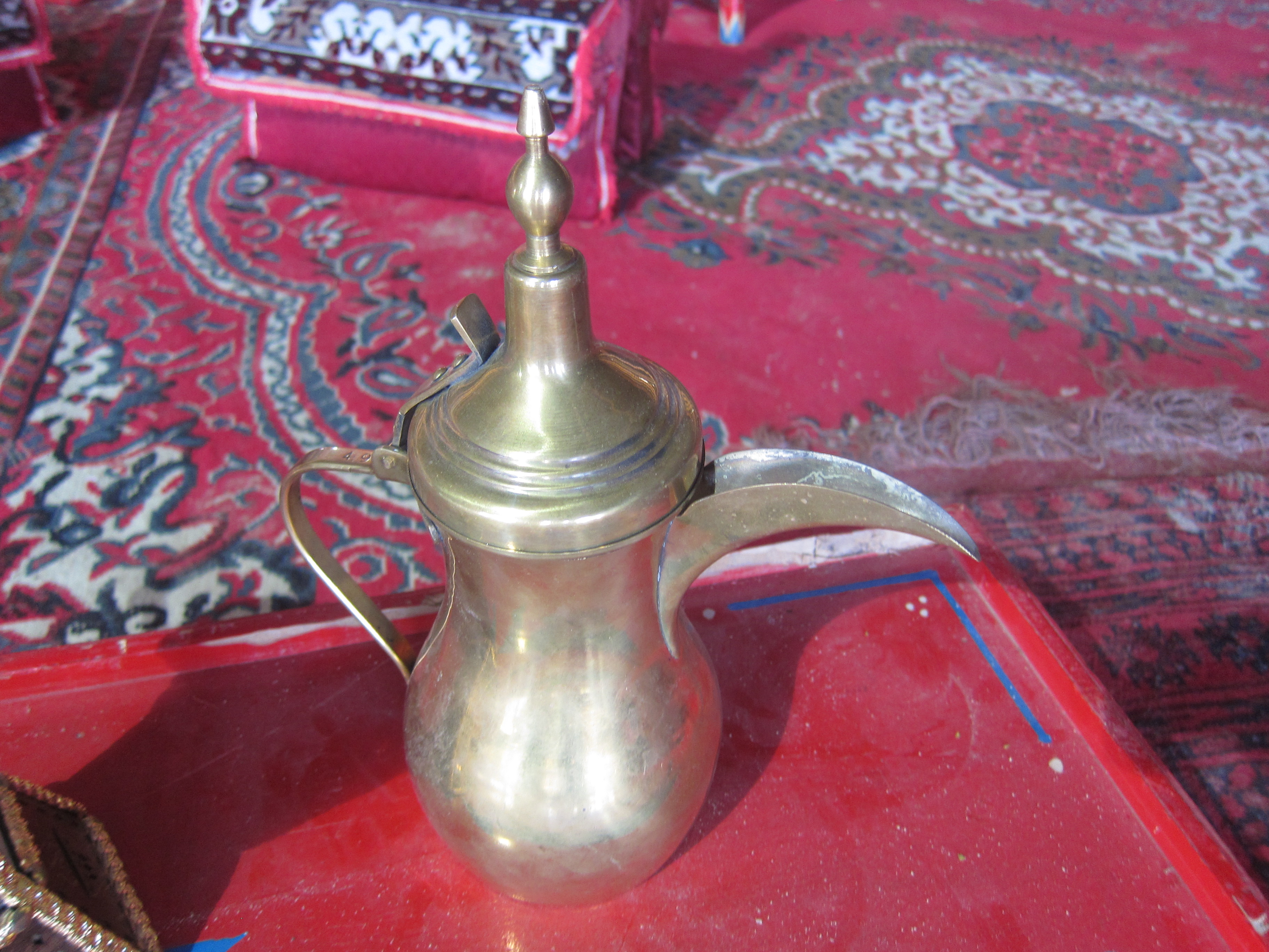 Saudi Culture - സൗദി സംസ്കാരം